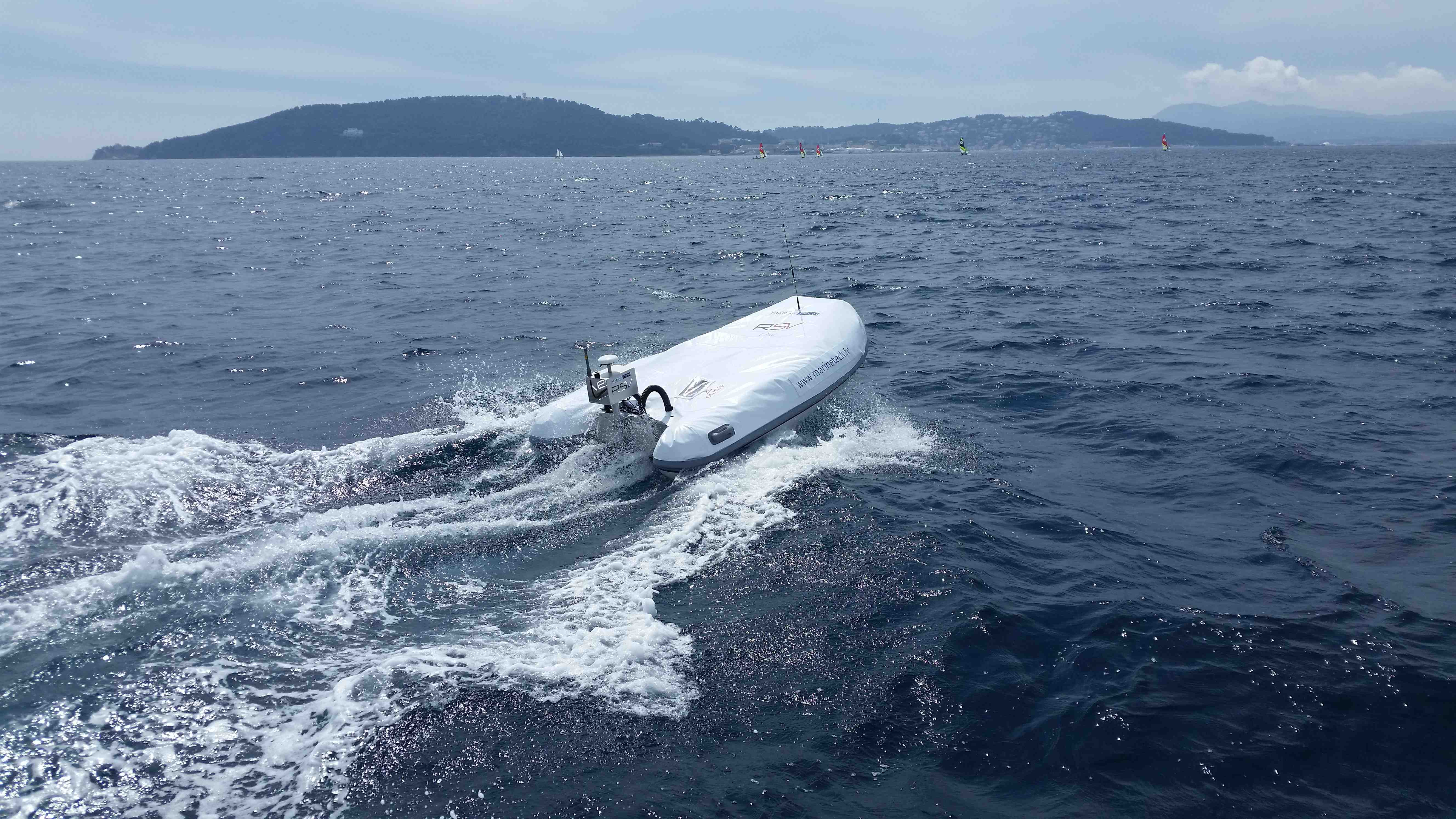 RSV Orca in transit to an offshore marine works area (max speed = 11 knots).